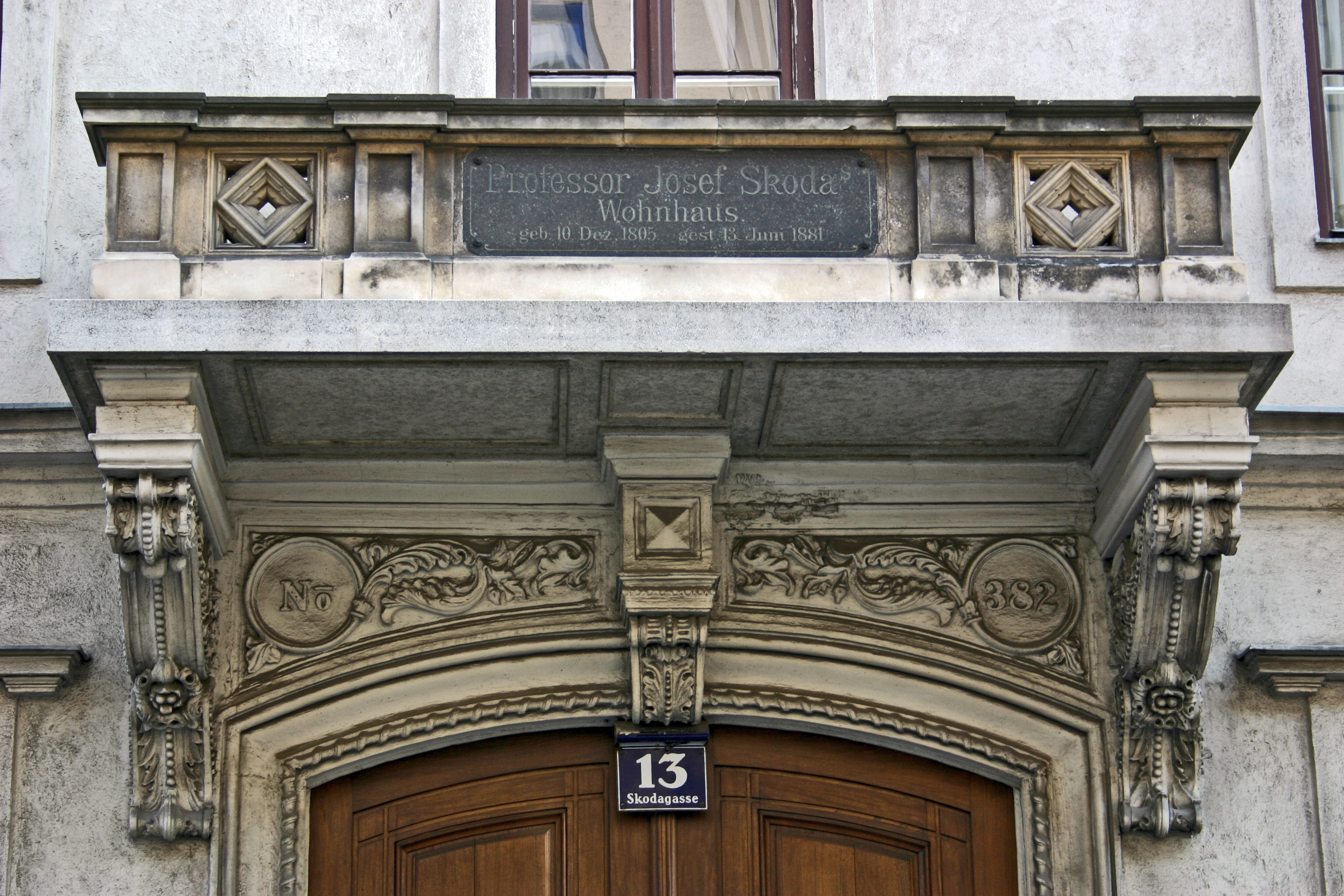 Skodagasse, Vienna